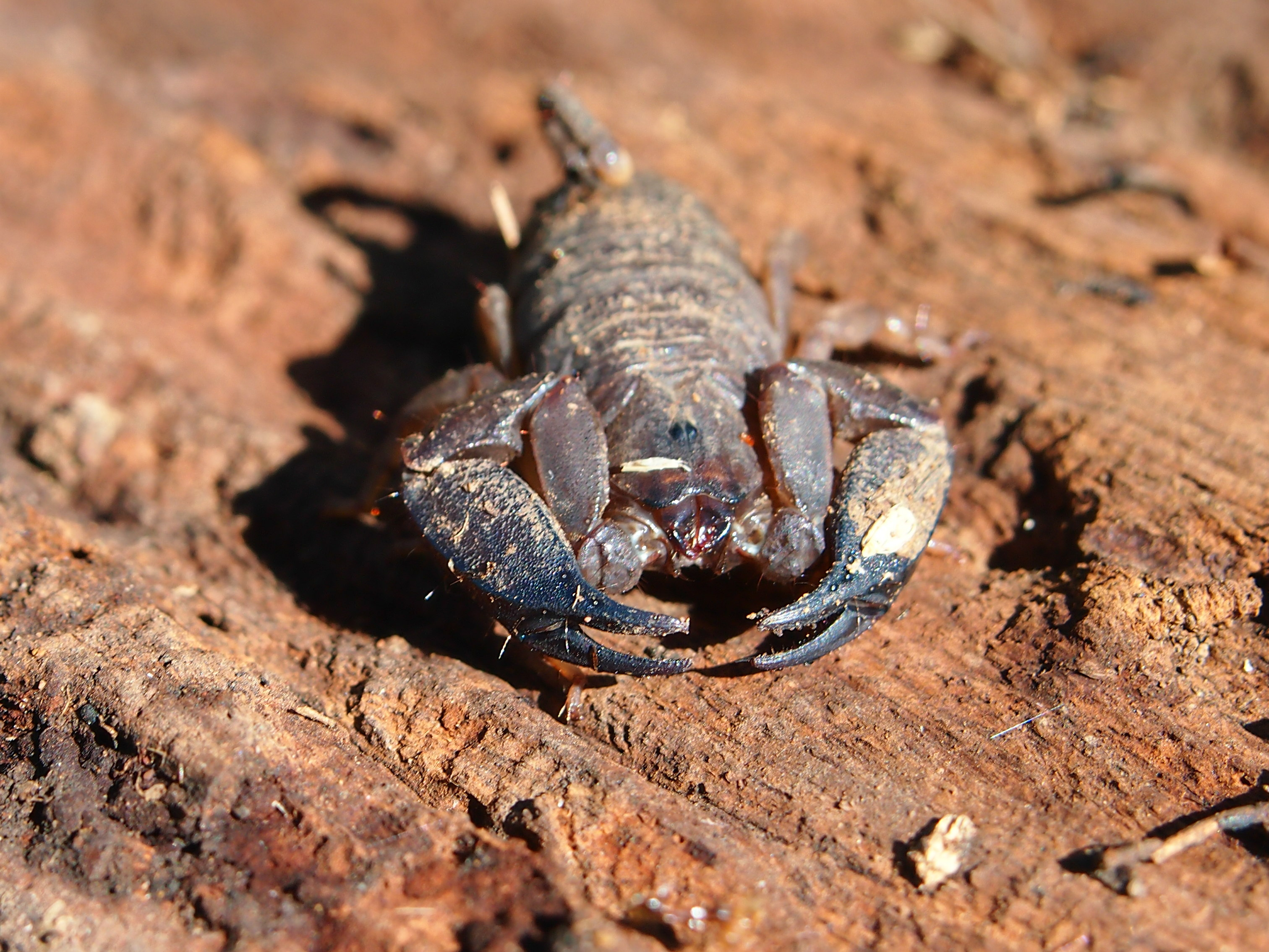 Hormurus waigiensis, Australian Rainforest Scorpion.